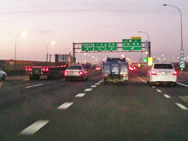 Rende SIC on No1 National Highway,Tainan,Taiwan